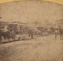 Mule-drawn streetcars, "Capital City Street R." in downtown Montgomery, Alabama. The photograph was taken in Court Square, facing west. Portions of signs are visible for for E.C. Andrews Drugstore; Goetter, Weil & Co.; B.L. Wyman's Hardware; and the drug store belonging to Irvine, Garside, & Alexander